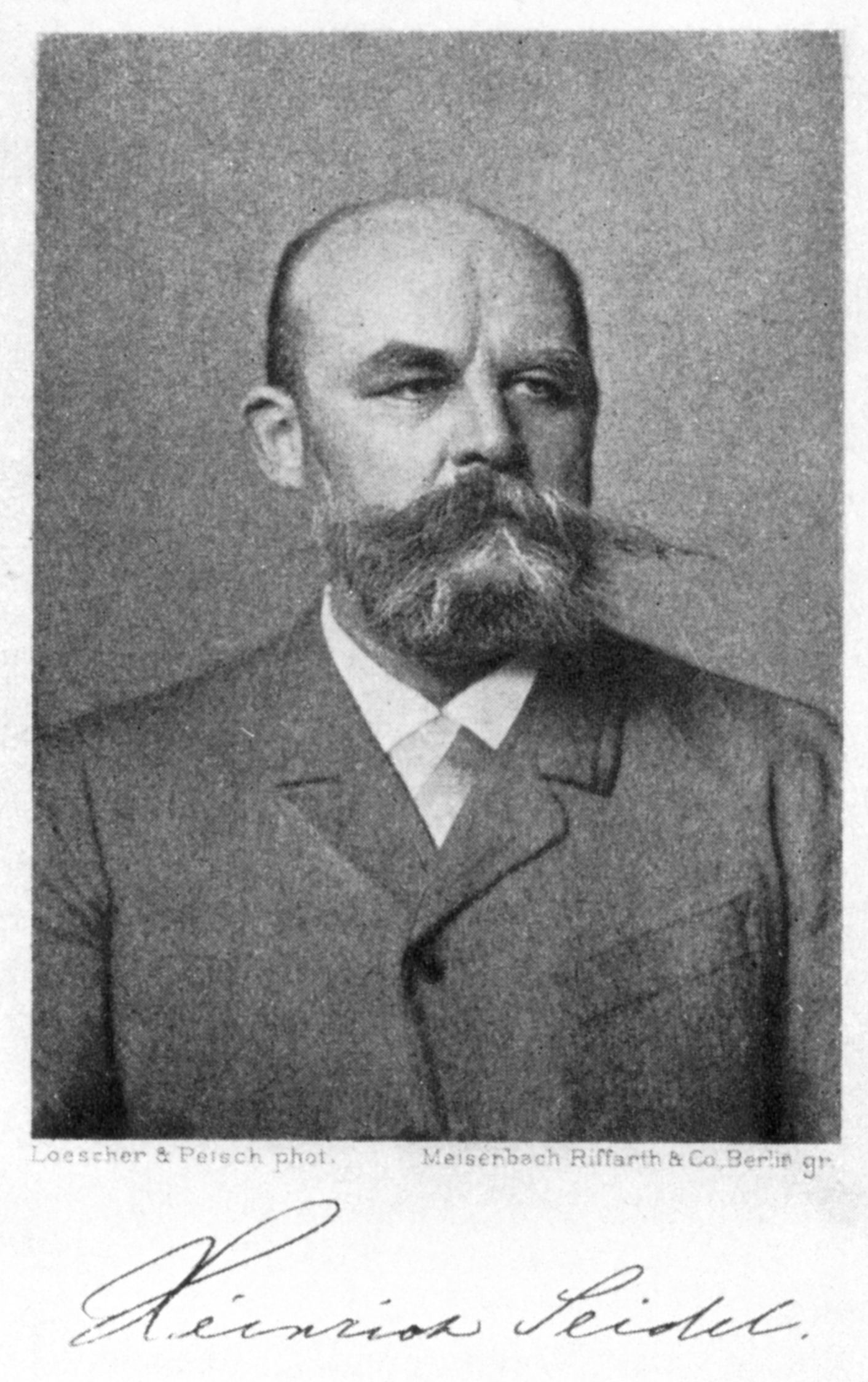 Heinrich Seidel (born 25.06.1842, died 7.11.1906), German engineer, poet and writer. The image is an excerpt (cut) of a photo card originally bearing also Seidel's autograph (signature) and the text Löscher & Petsch / Meisenbach Riffahrt & Co, a well-known photo studio at those times in Berlin, Leipziger Straße.